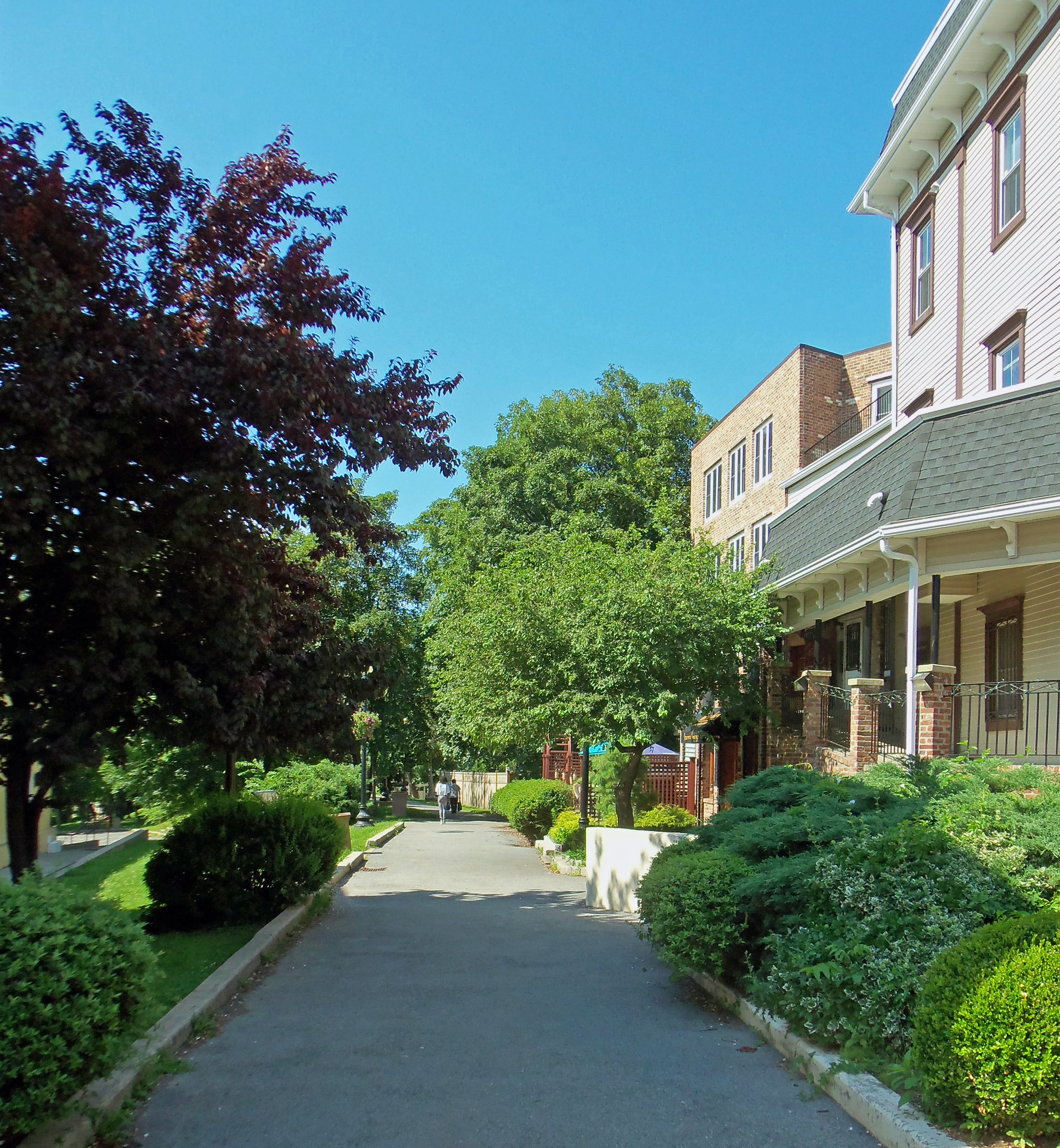 Old Croton Aqueduct walkway looking north from Main Street in downtown Ossining, NY, USA, Historic District